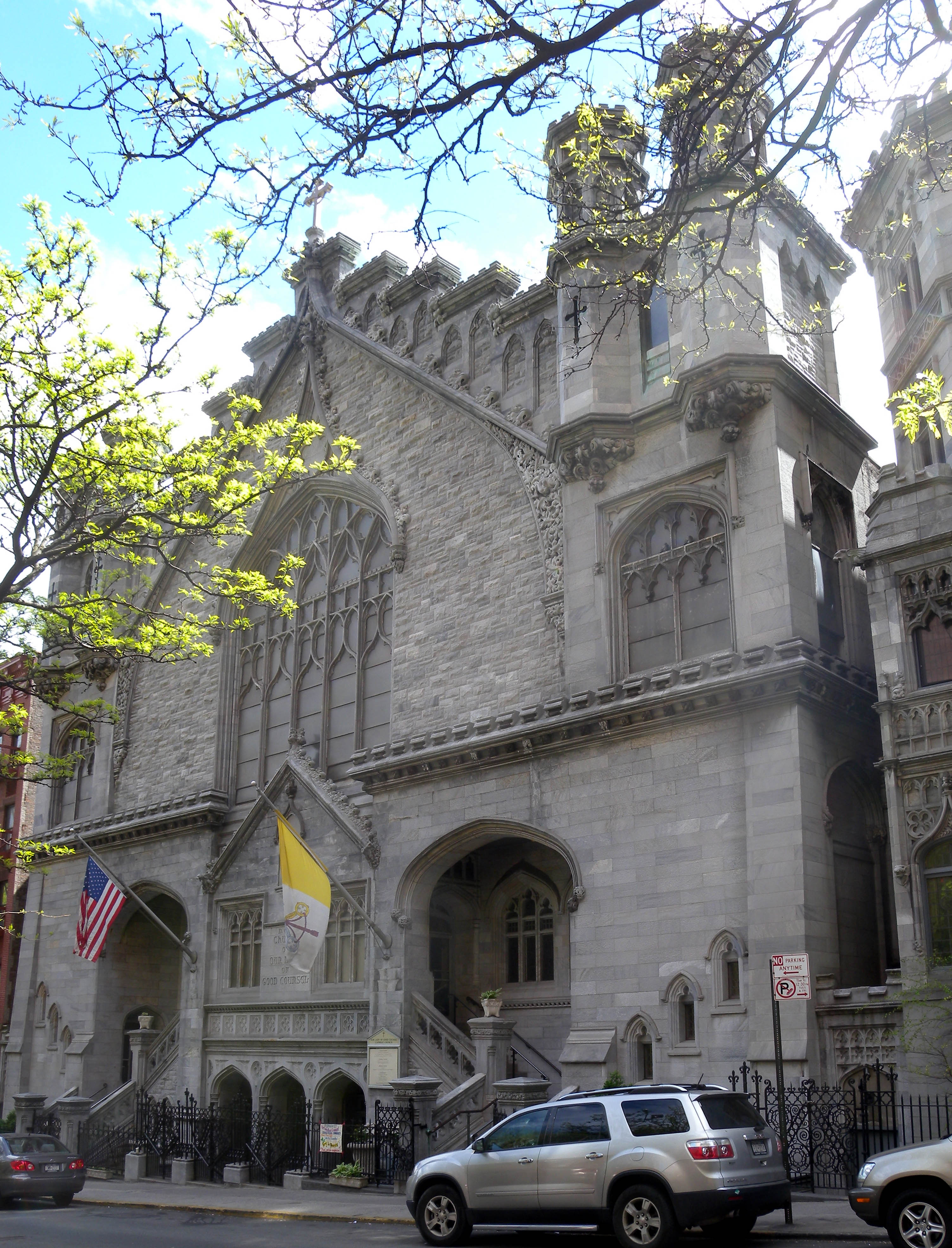 Looking south at Our Lady of Good Counsel RC Church on a sunny day. ZIP 10128.